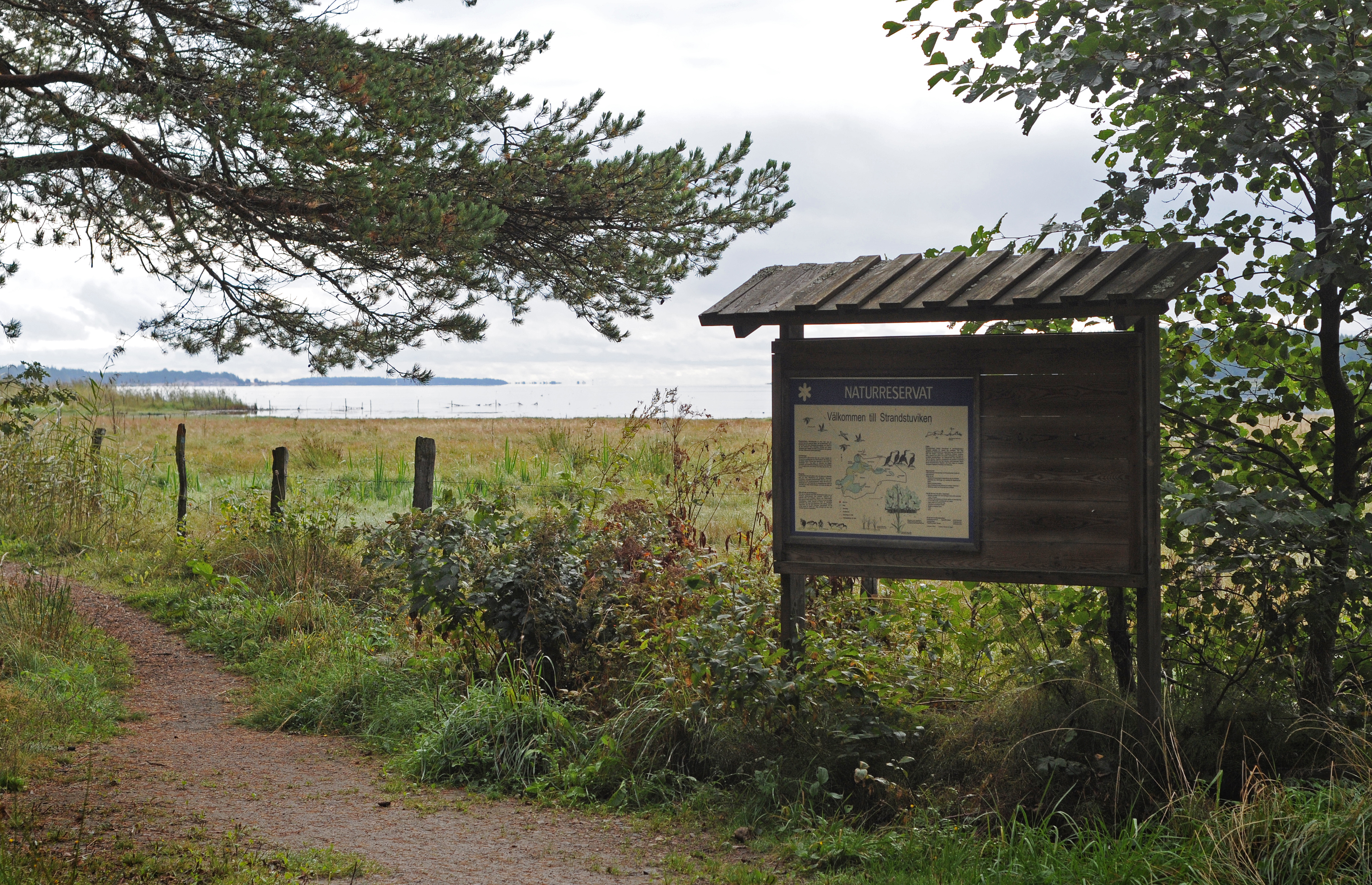 Strandstuviken nature reserves in the municipality of Nyköping.